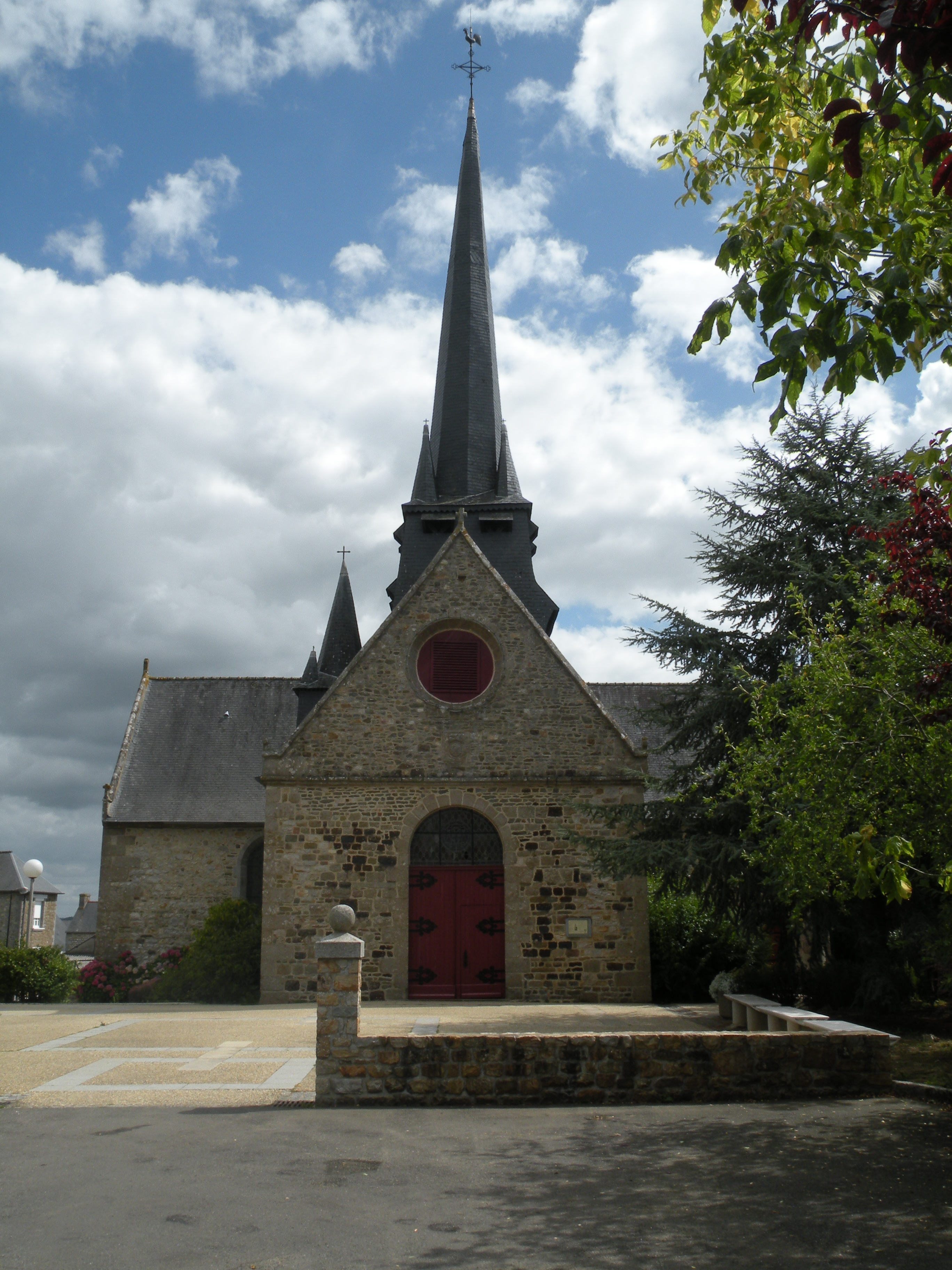 Church of Billé.